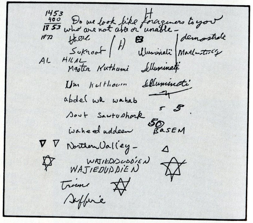 Excerpt from Sirhan Sirhan's spiral notebook, which was claimed to be a diary.